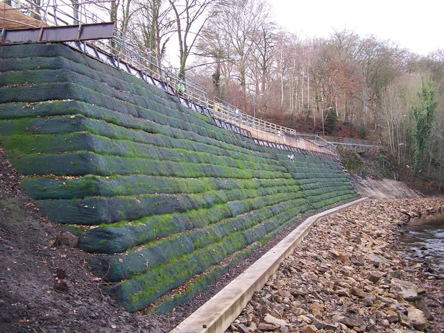 River Bank Repairs, near Middlewood Tavern, Oughtibridge - 1. This view, in December 2008, shows the extent of the repairs to the banking which collapsed in June 2007 following heavy rain and flooding. The banking collapsed taking with it all of the pavement and most of the A6102 road. 1071998 1072002 1539388